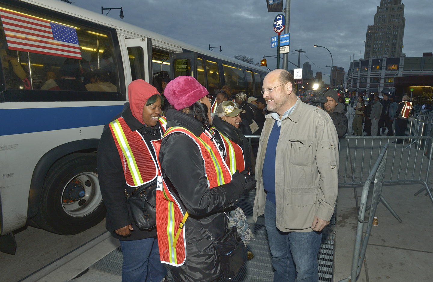 Hurricane Sandy. MTA Chair Joe Lhota inspects transit recovery efforts at Atlantic Ave. Terminal Barclays Center in Brooklyn.